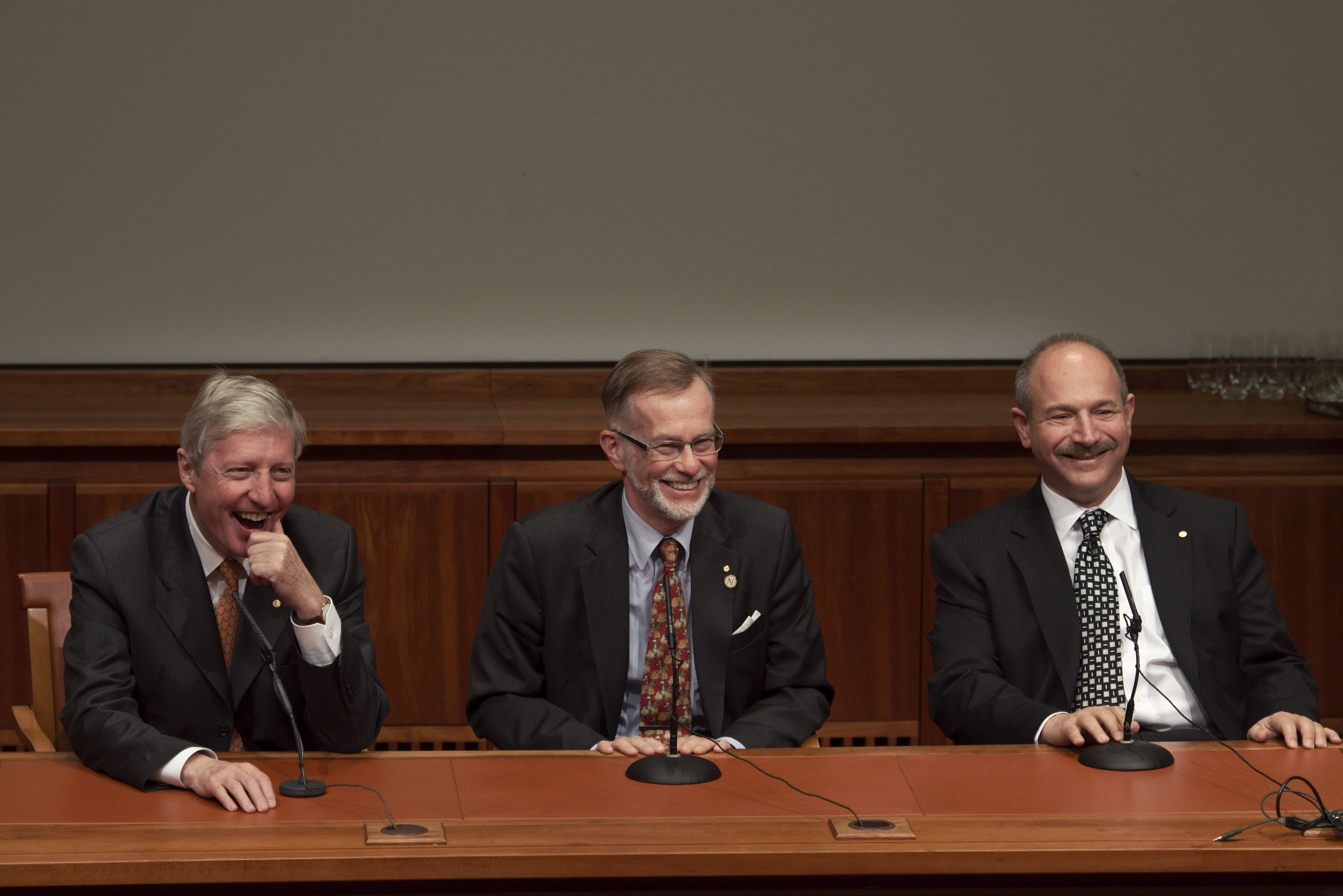 Nobel Prize 2011, press conference with the laureates of the Nobel prize in Physiology or Medicine: Jules Hoffmann, Göran K. Hansson, and Bruce Beutler.